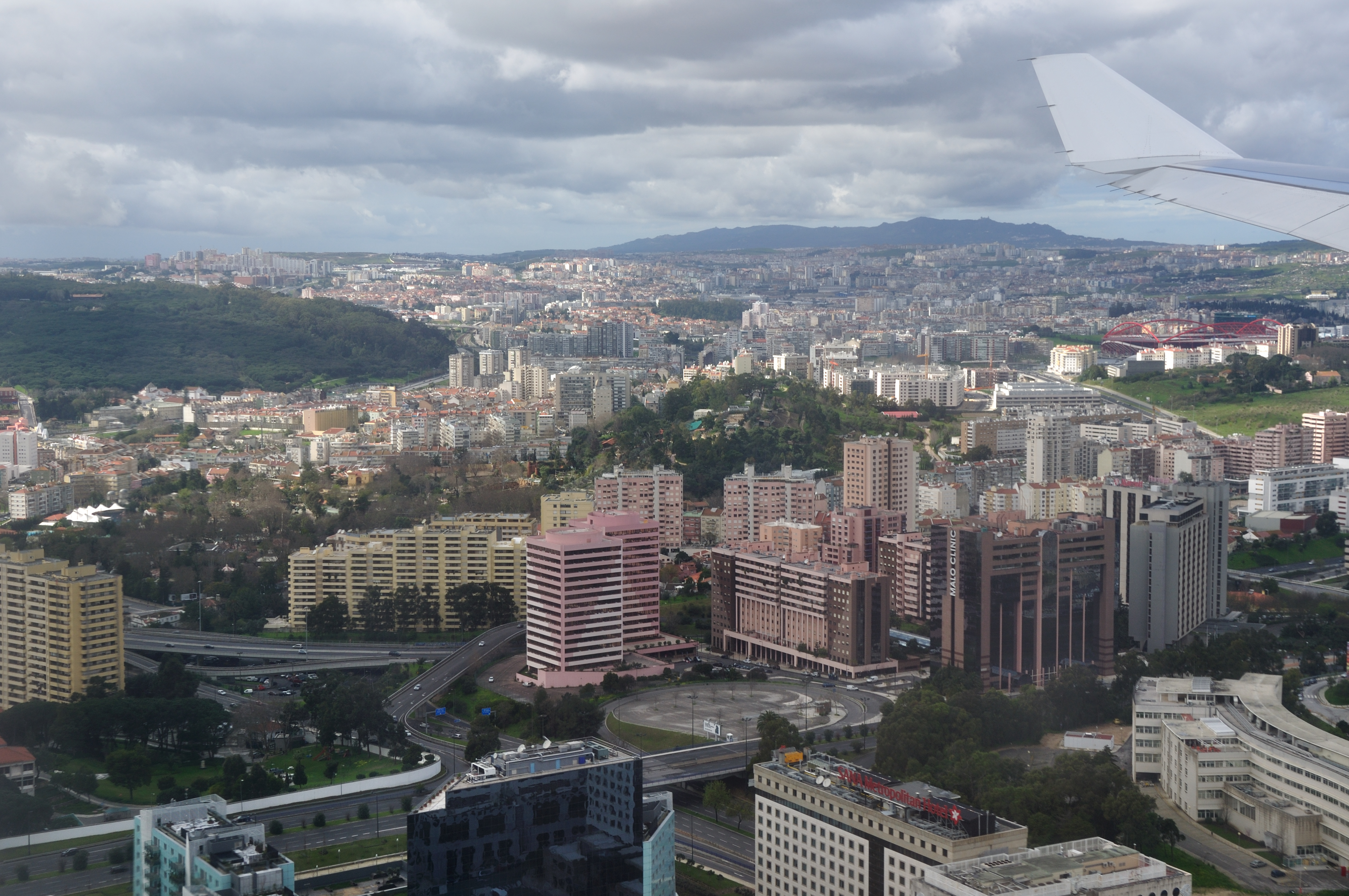 Portugal, Approach into Lisbon